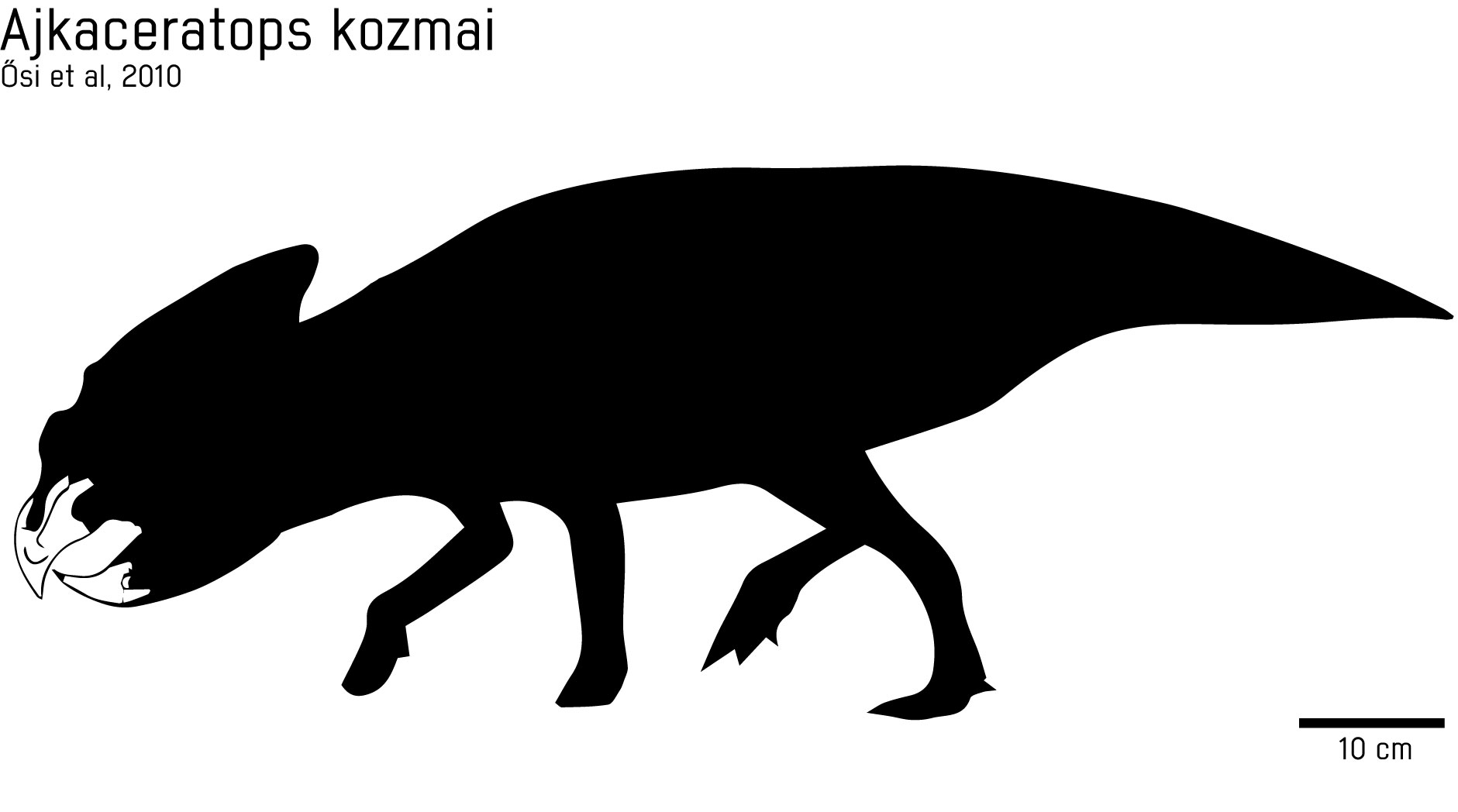 Known material-Scale bar 10 cm